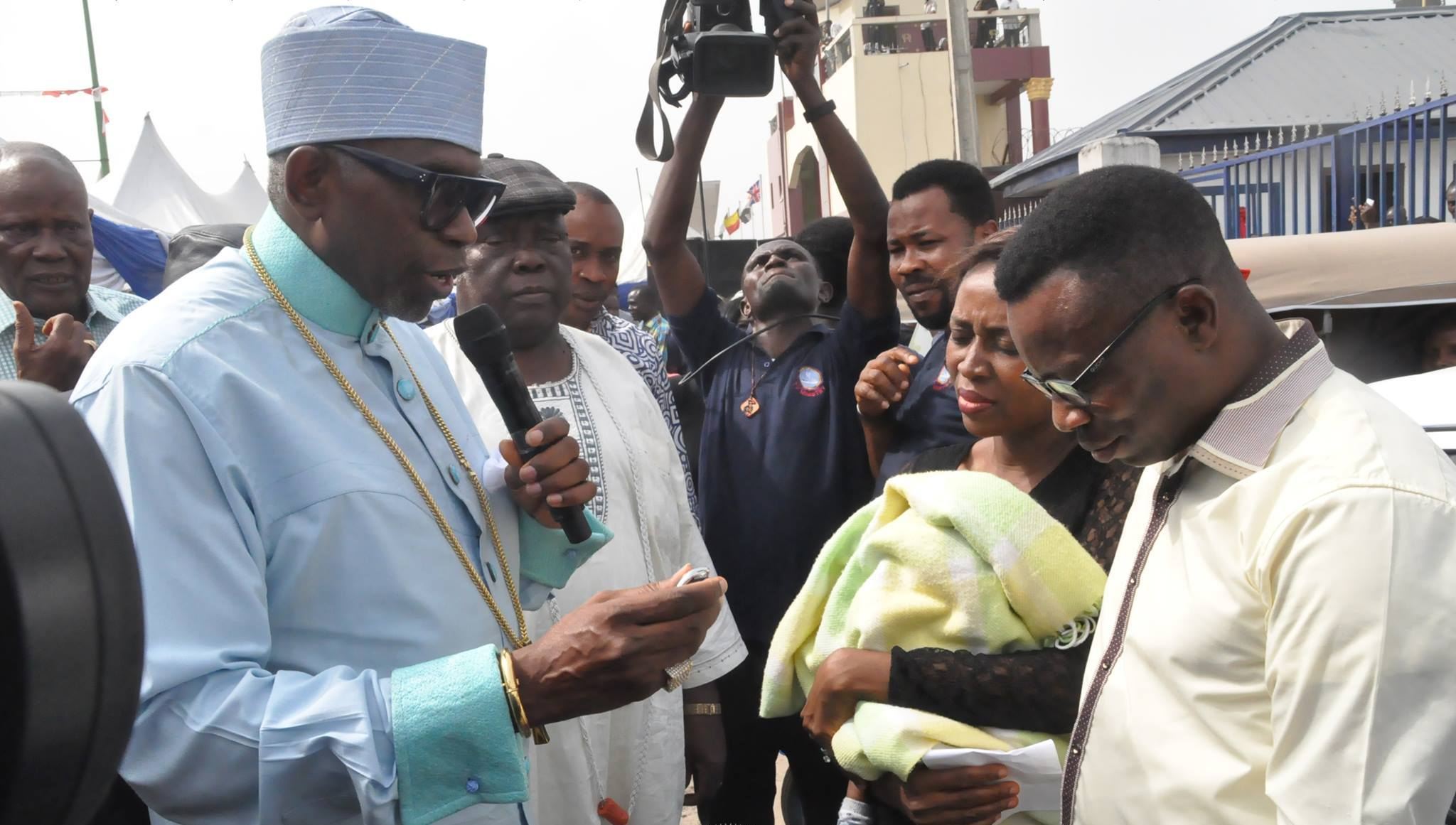 Pastor Ayo Oritsejafor handing over the keys of a brand new car to a benefactor during the Annual Poverty Alleviation Program in Warri, Nigeria. December 26, 2015